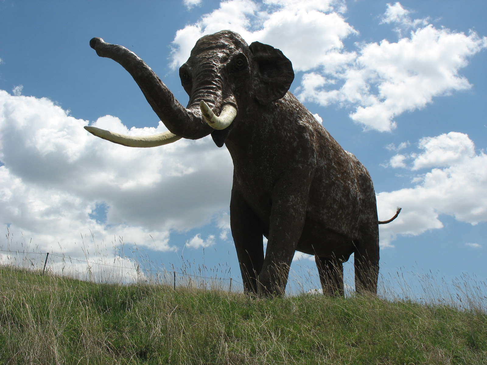 Palaeoloxodon antiquus recreated, next to the in situ paleontological museum of Ambrona (Soria, Spain)